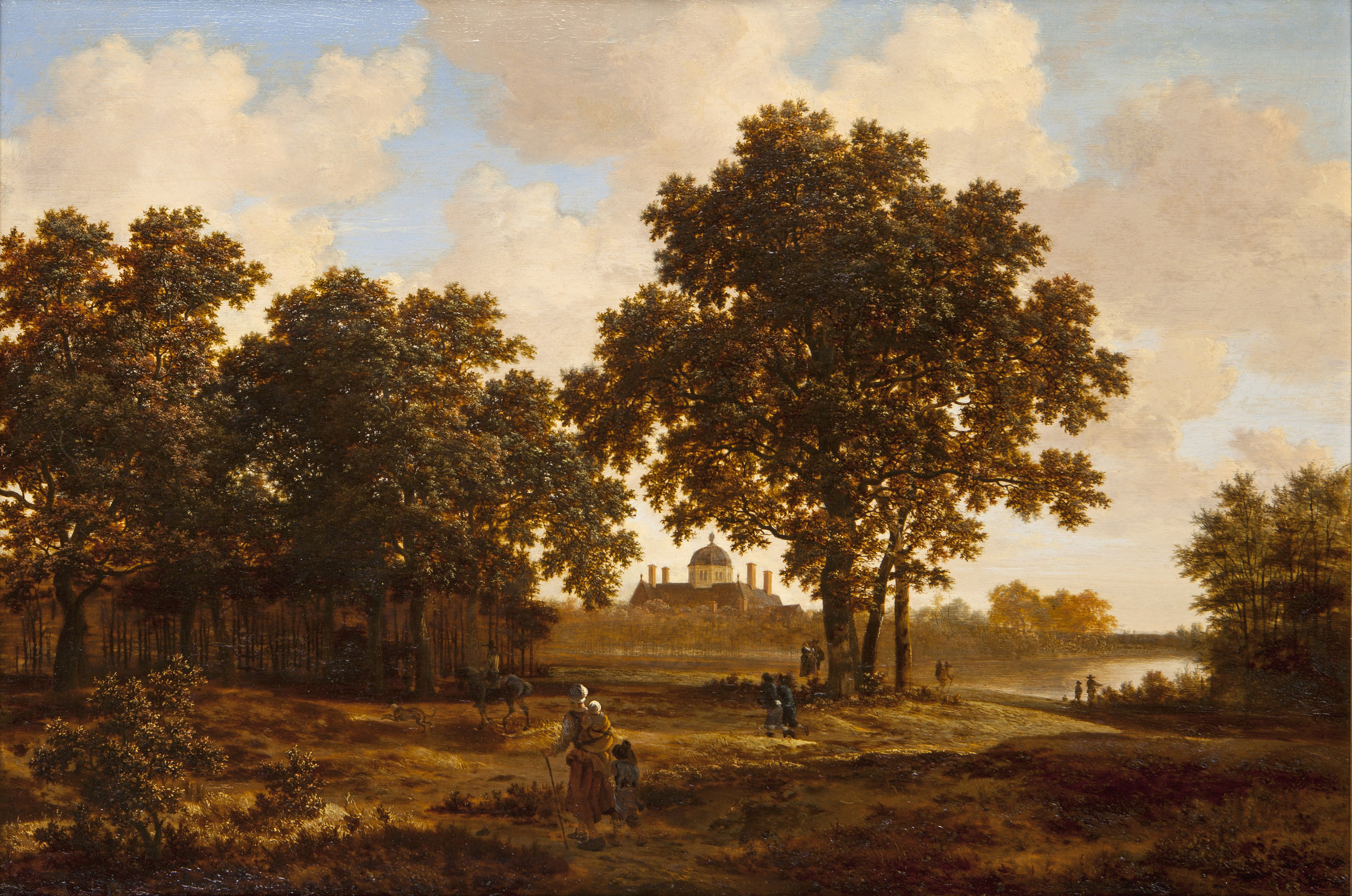 The forest in The Hague with a view on Palace Huis ten Bosch